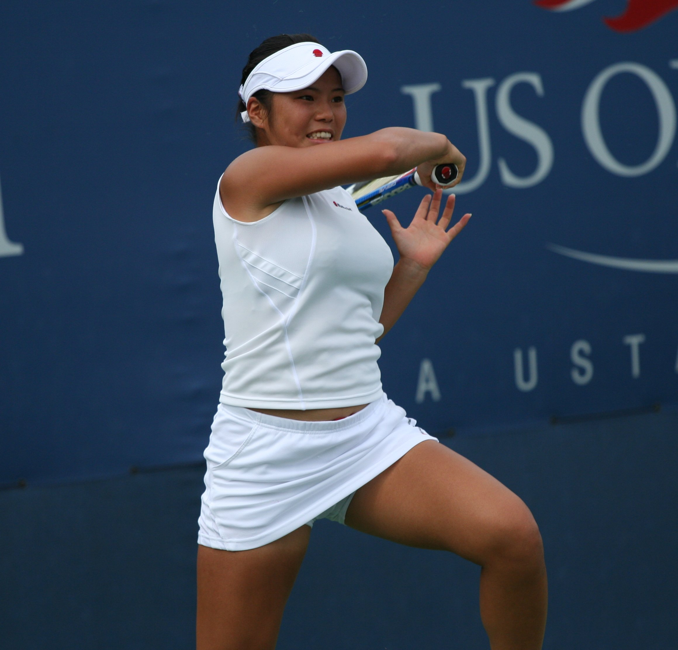 Akiko Omae at the U.S. Open Juniors